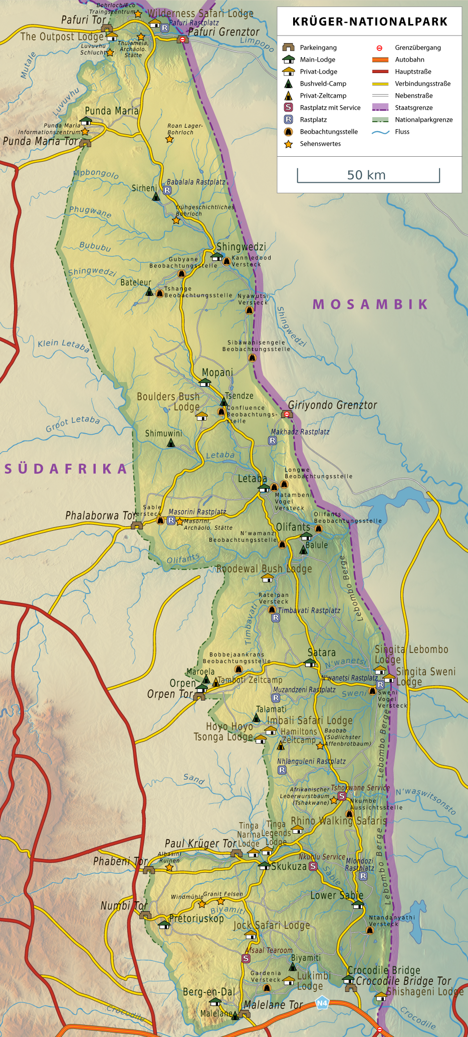 Map of the Kruger National Park in South Africa with the Gates and Camps in German.